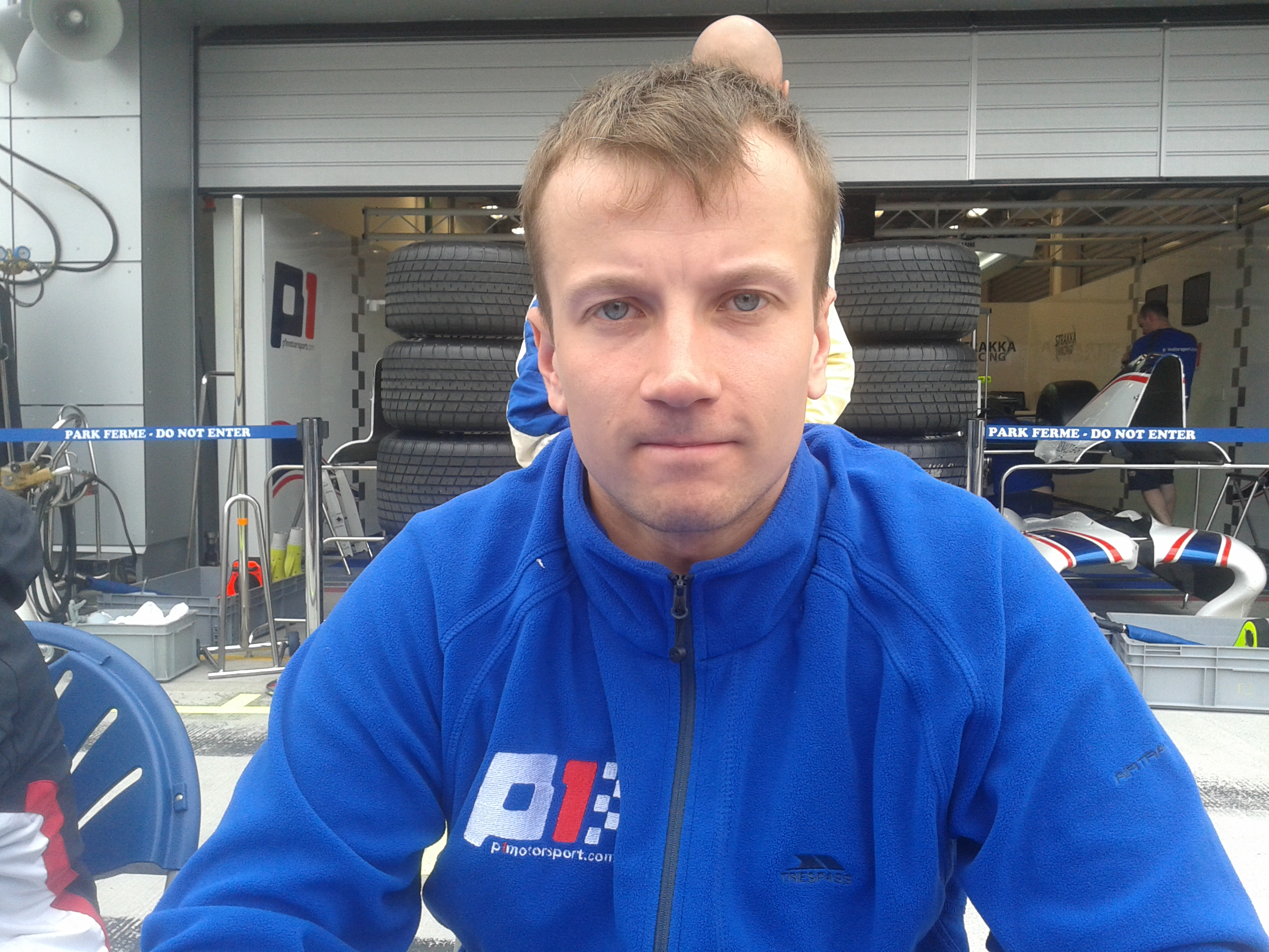 Matias Laine at Moscow Raceway, 22 June 2013